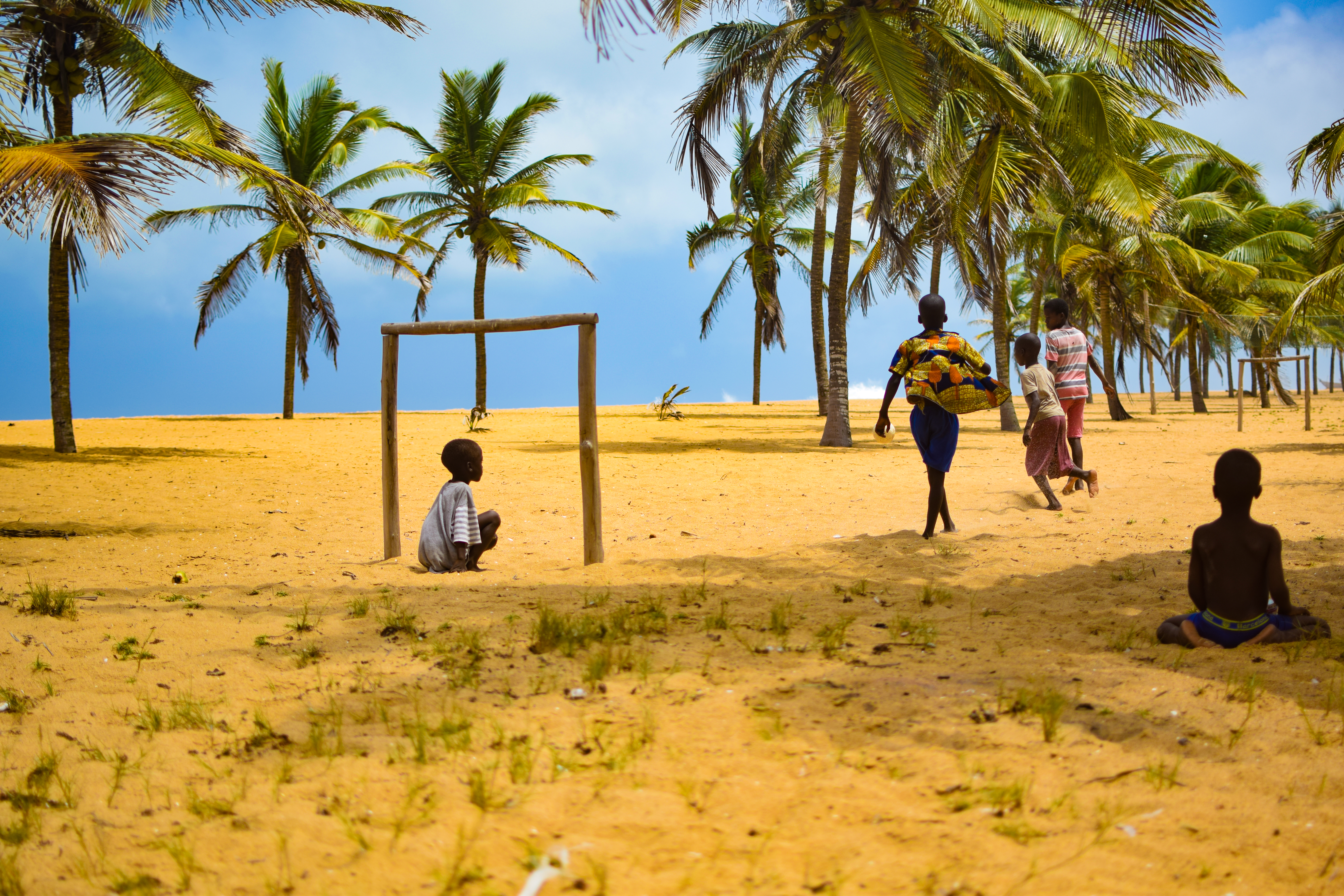 Children don't need a real football stadium to play football. If they find a place where they can enjoy, they play. I've captured these children during a game.